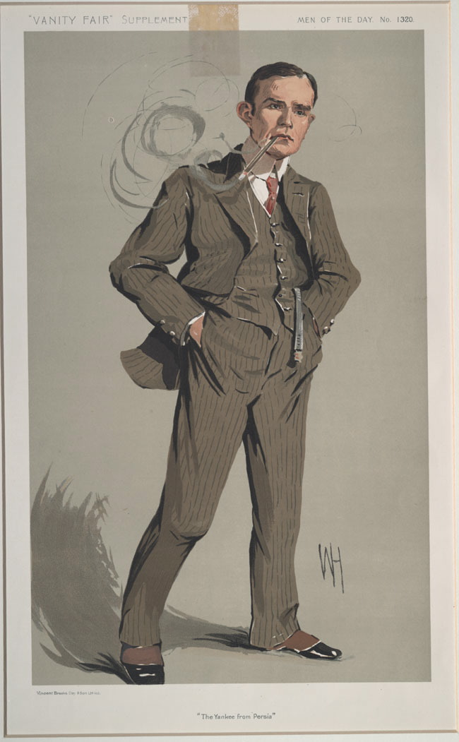 Men of the Day No.1320: Caricature of William Morgan Shuster. Caption reads: "The Yankee from Persia"